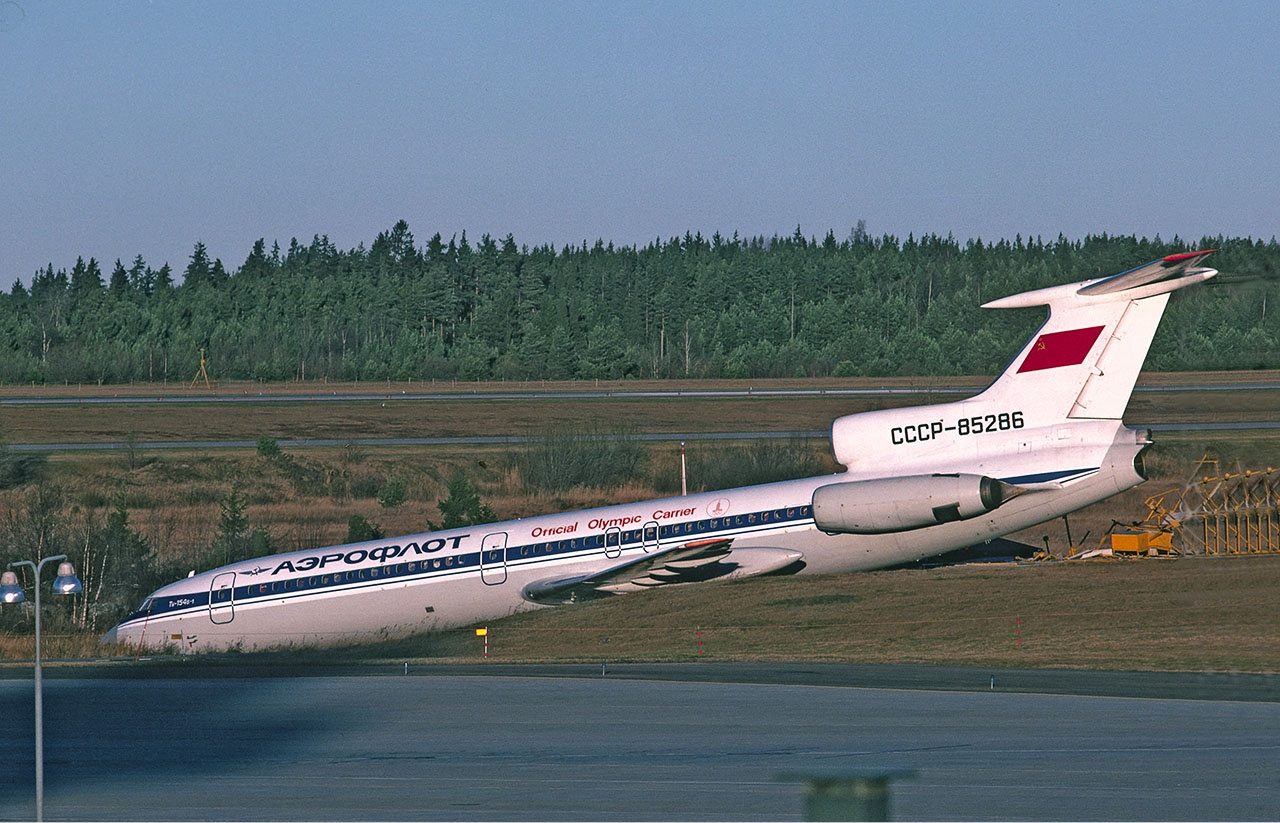 Aeroflot Tupolev Tu-154B-1. CCCP-85286 (cn 78A286) This aircraft aborted take off from Rwy 26, but the speed was to high to stop, so the aircraft run through the LLZ and stoped in a embankment side